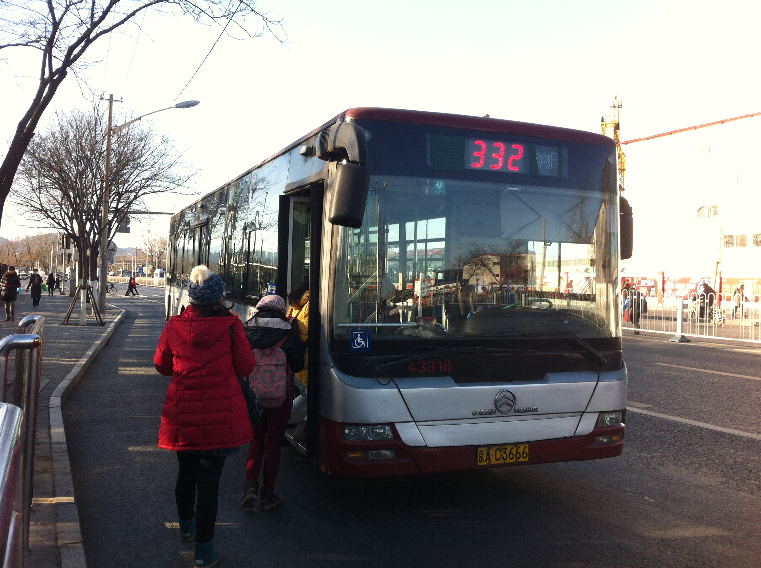 A Golden Dragon (not to be confused with King Long) XML6125J93C at Xiyuan, Beijing.